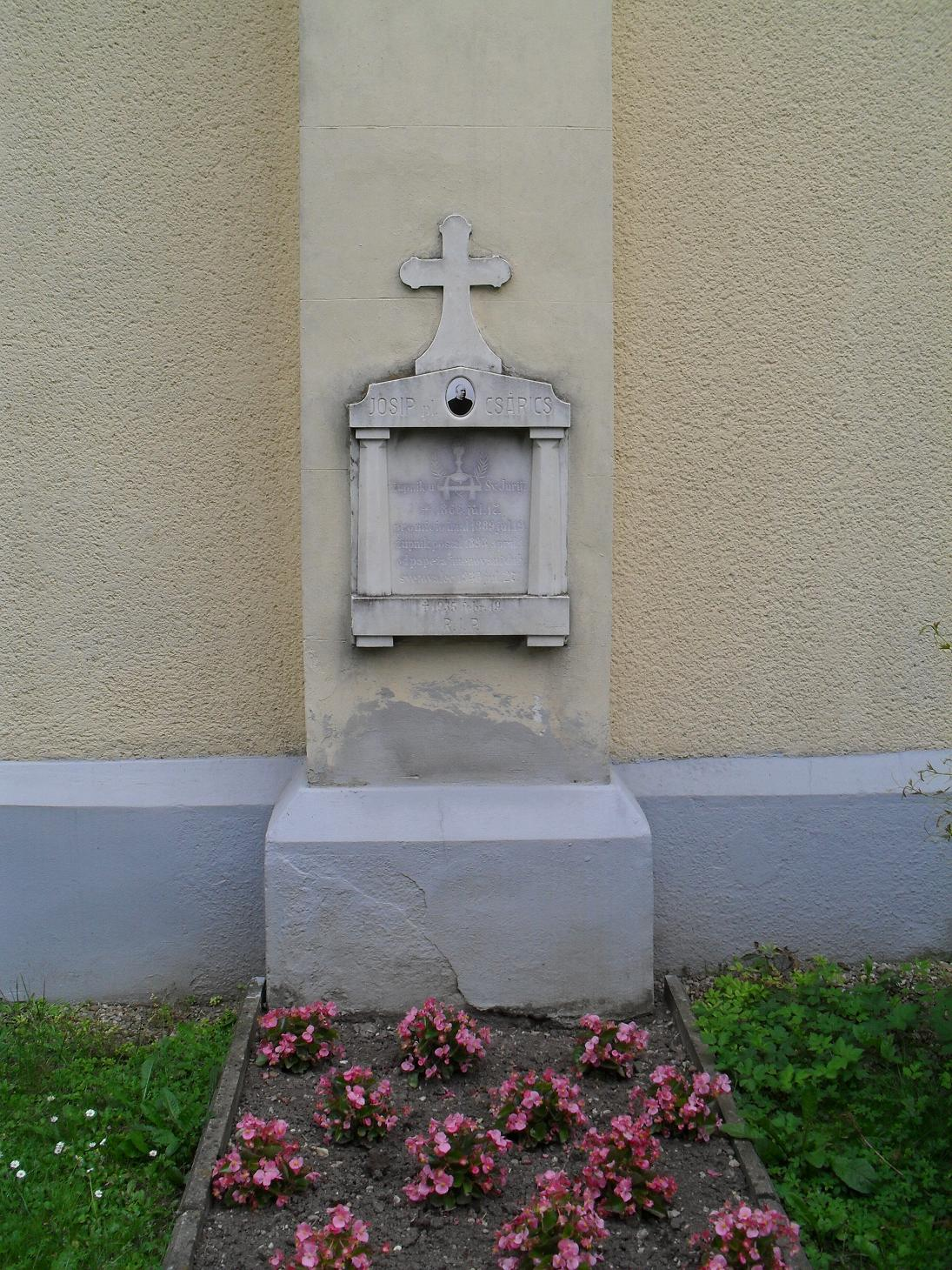 The grave of József Csárics (1866-1935) Slovene Roman Catholic priest, politician of Prekmurje, near the St. George Church in Sveti Jurij, Rogašovci